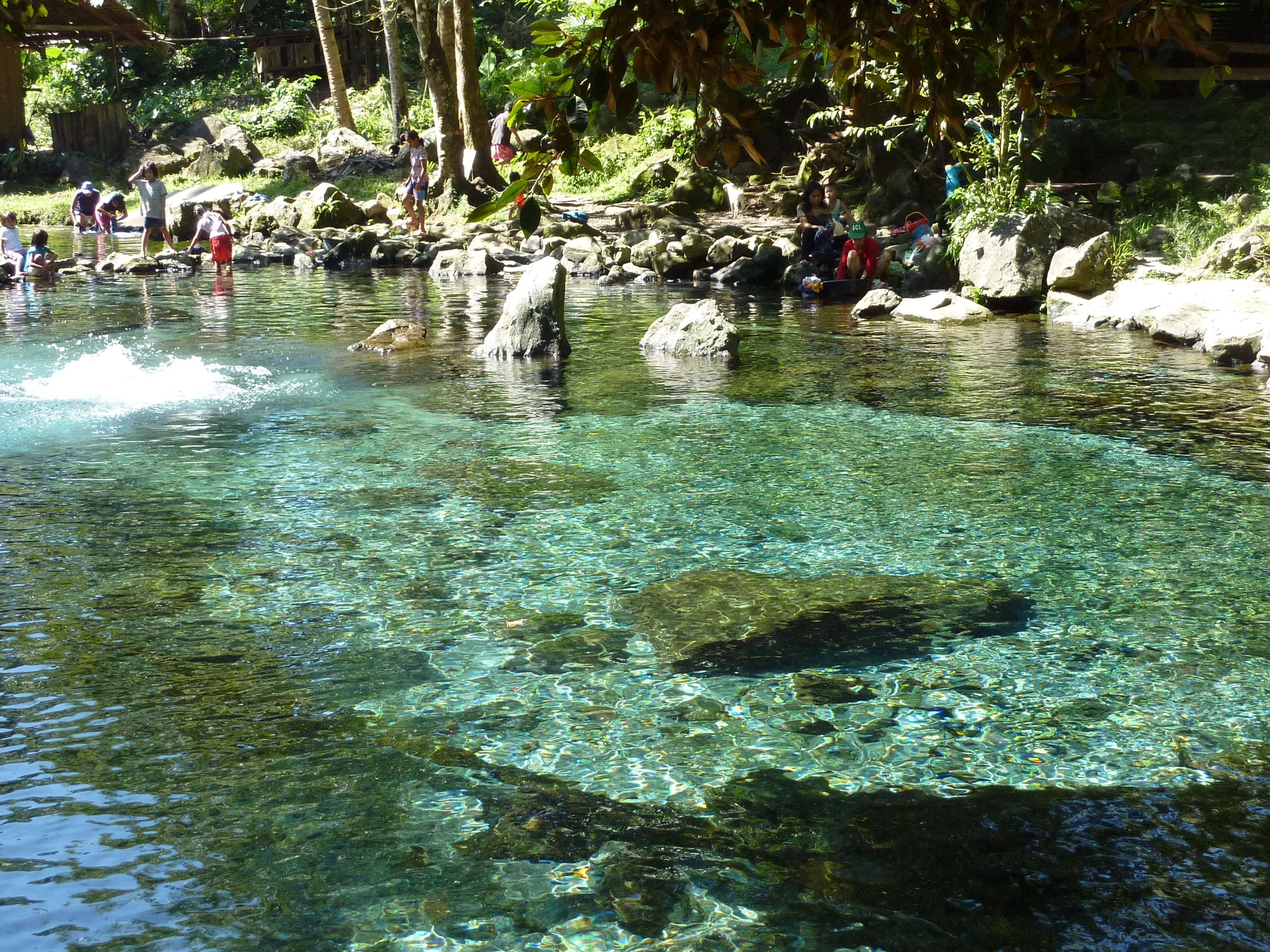 Songkoy Spring, in the hills behind the town of Tubod, Surigao del Norte.